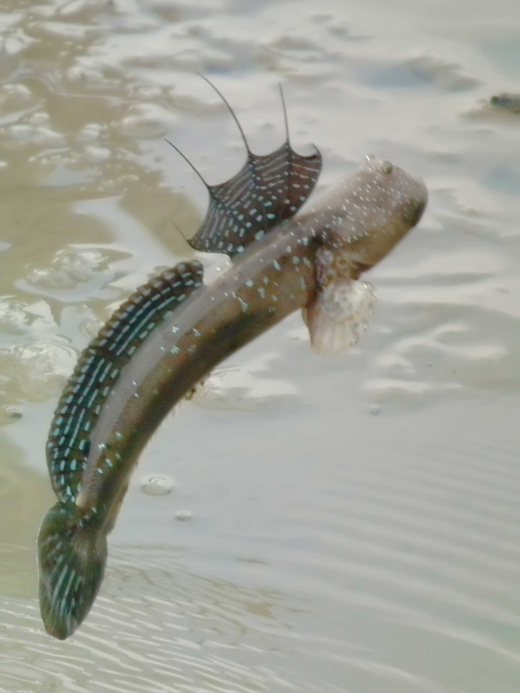 flying fish mudskipper